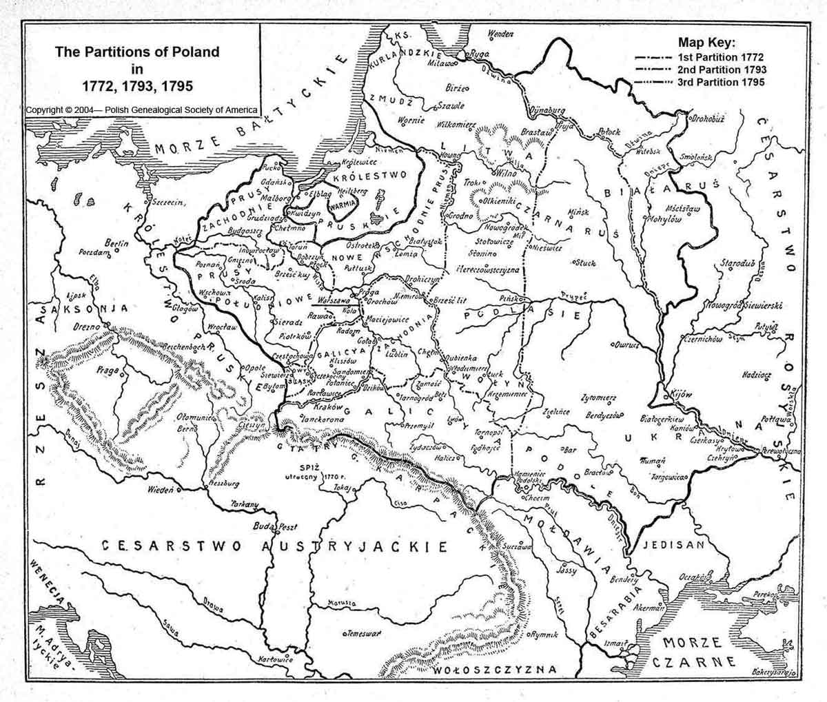 The Historical Atlas of Poland was compiled by Jozef Nowina Sroczynski (Gimnazjum teacher); the initials C.K. indicate he taught at a school in the Austrian Empire, presumably in Galicia]. The atlas was published by W. Dyniewicz, Chicago, IL - approximately 1910.